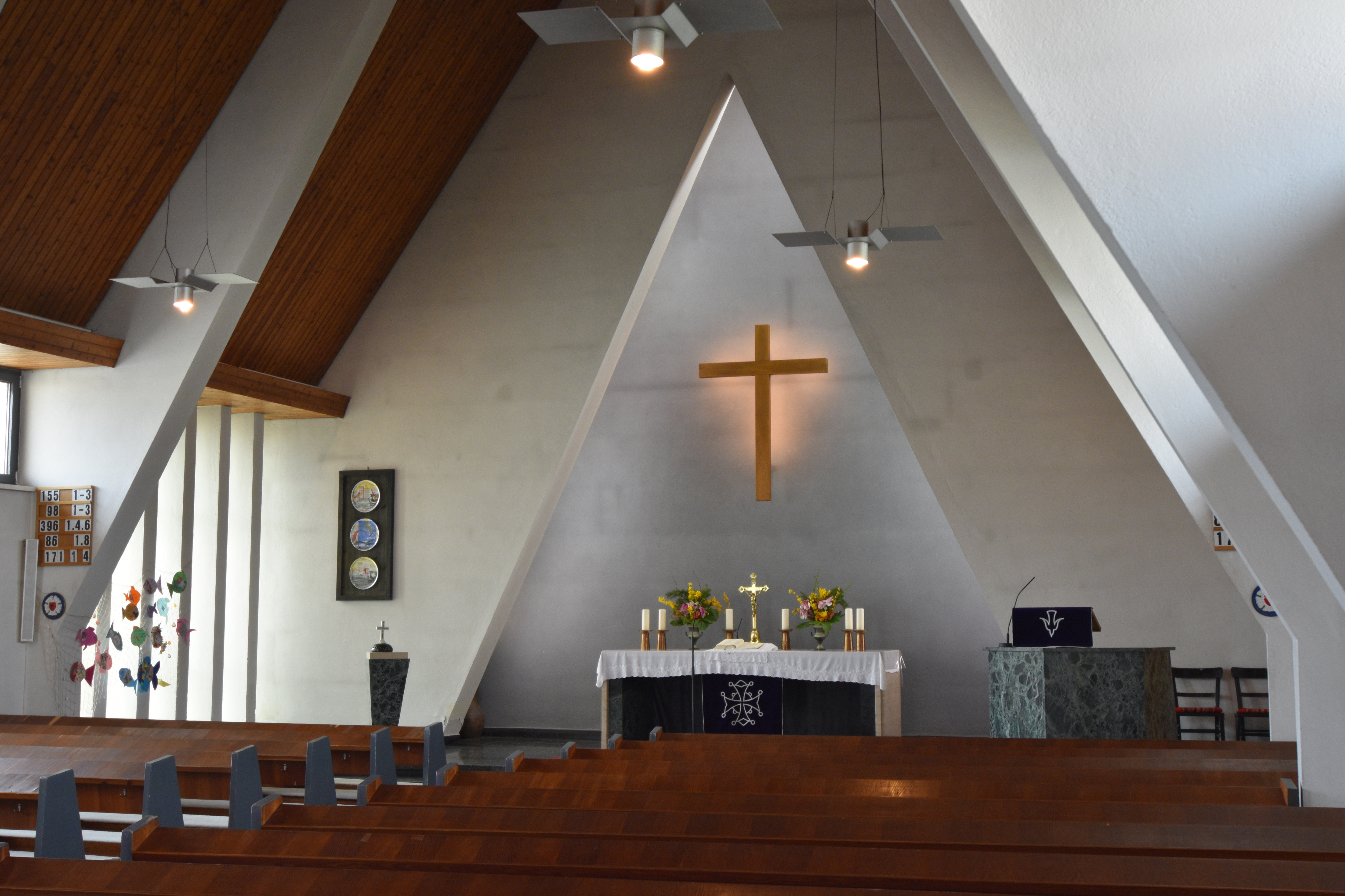 Church Christuskirche (Stoob) - Interior